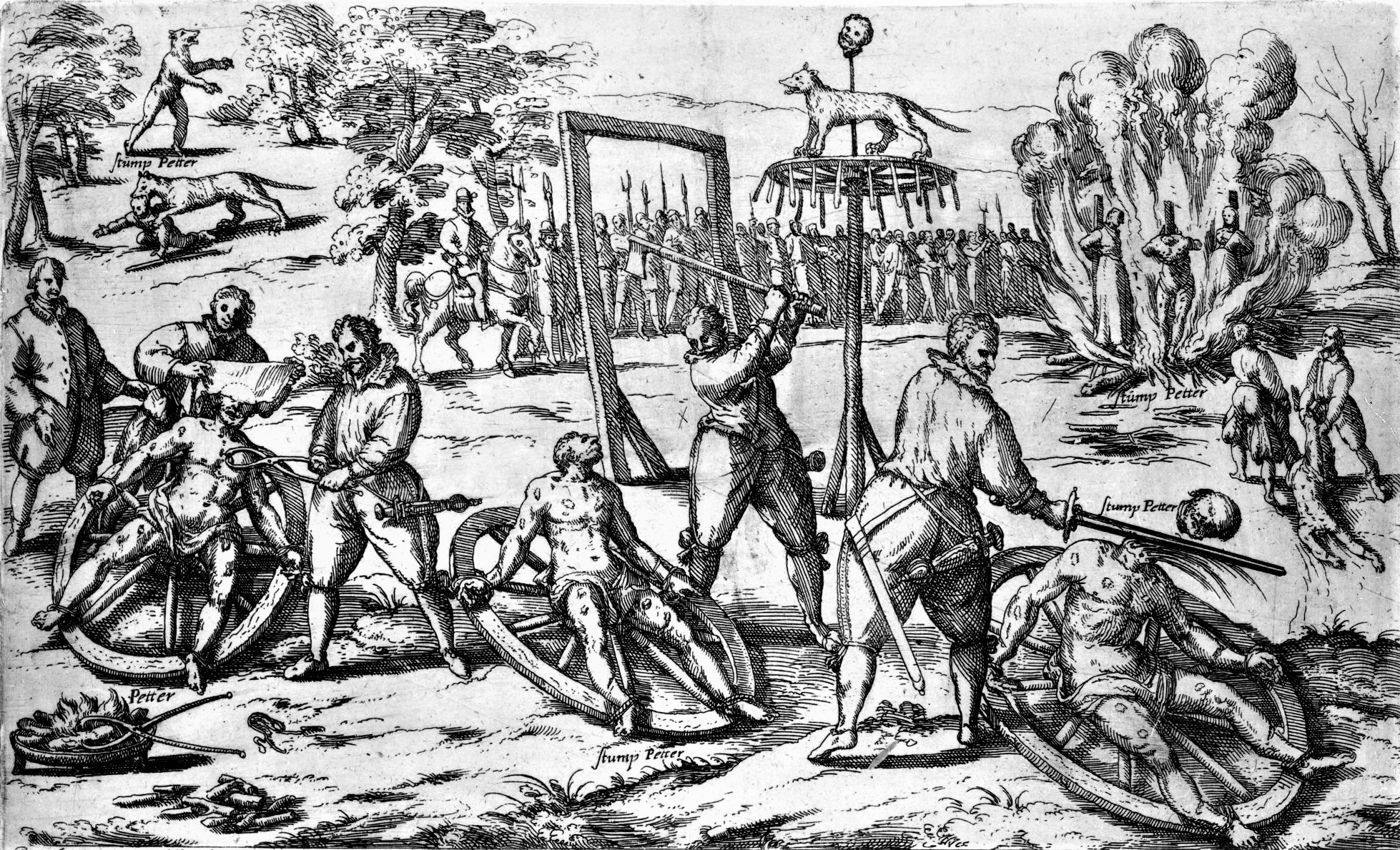 This wood cut shows the 'breaking wheel' as it was used in Germany in the Middle Ages. The exact date is unknown, as is the creator, but it depicts the execution of Peter Stumpp in Cologne in 1589. This form of punishment was most common during the middle ages and early modern age. Though, for example in many regions of future Germany, the breaking wheel was still used in the 19th century. The last known execution happened 1841 in Prussia. The picture was published in 'Het Tilburgs Tijdschrift voor Geschiedenis' (Tilburg History Magazine) in 2003. The woodcut relates the crime and the punishment of Peter Stumpp and includes a depiction of the punishment of his daughter and mistress. Stumpp was accused of being a werewolf and in the top left hand corner of the woodcut we see a large wolf attacking a child. Above this scene a man with a sword is seen fighting off the wolf and in doing so, lops off the wolf’s left forepaw. In the centre left of the illustration we are shown the first punishment of Stumpp, namely the tearing of his flesh with red hot pincers while he is bound to a wheel. In the middle we see the executioner using the blunt side of an axe to break Stumpp’s arm and leg bones. On the righthand side of the illustration the executioner beheads Stumpp. In each of these three depictions we can see that Stumpp’s left hand is missing, presumably pointing to the fact that the werewolf had its left forepaw cut off. After his beheading, Stumpp’s body is dragged away to be burnt. In the top right hand corner of the wood cut we see the fire where Stumpp’s daughter and mistress, each tied to a stake, are burnt alive with Stumpp’s headless body tied to a stake between them. Also shown is a wheel, mounted on a pole, which carries Stumpp’s severed head together with a figure of a wolf. The clothing may be from Germany in the mid 17th century.